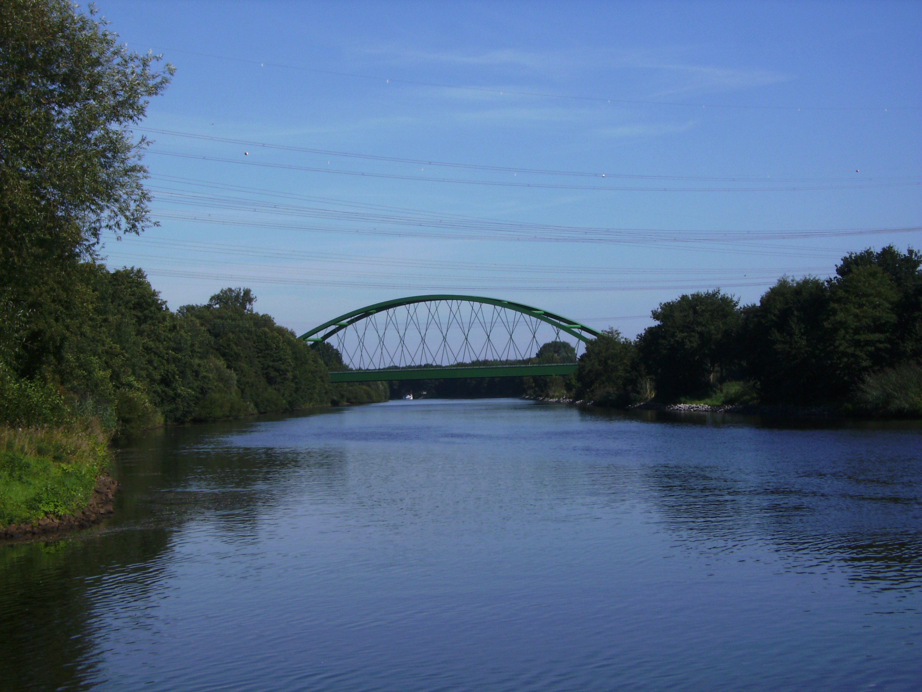 Meppen, bridge across the Ems; overhead power line crossings